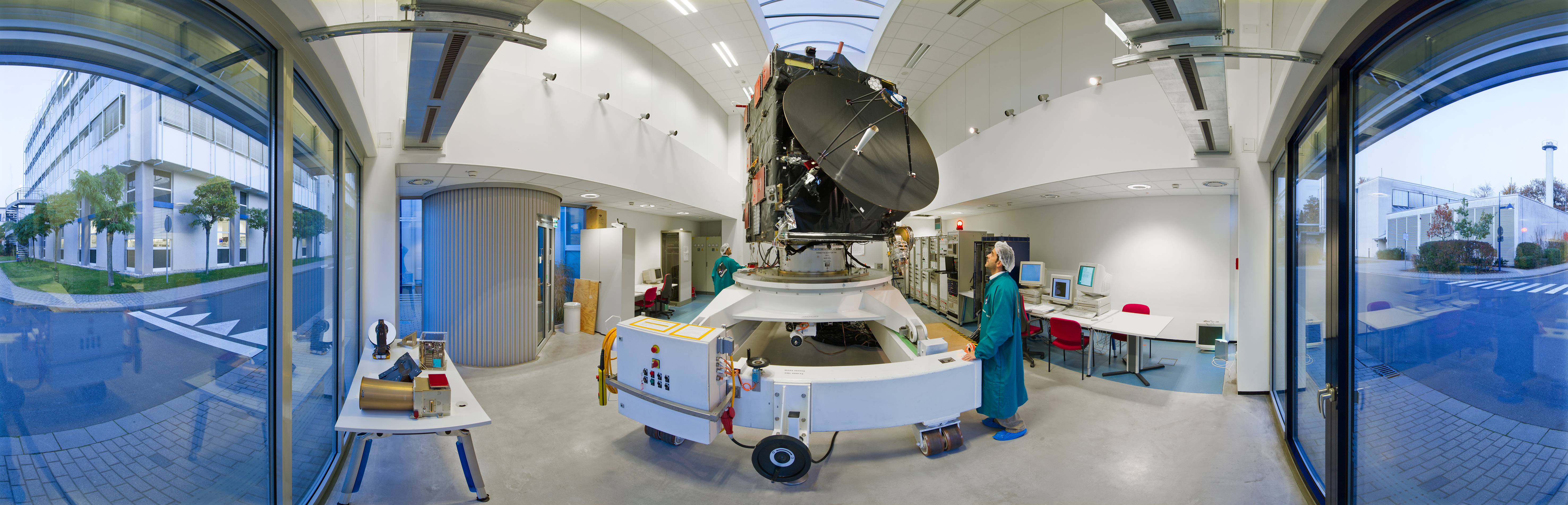 View of the full-size Rosetta engineering model (EQM) at ESOC, Darmstadt. Rosetta is en route to Comet 67P/Churyumov-Gerasimenko, where it will make the most detailed study of a comet ever attempted. It will follow the comet on its journey through the inner Solar System, measuring the increase in activity as the icy surface is warmed up by the Sun. The lander will focus on the composition and structure of the comet nucleus material. It will also drill more than 20cm into the subsurface to collect samples for inspection by the lander’s onboard laboratory. More about Rosetta: Credit: ESA/J.Mai